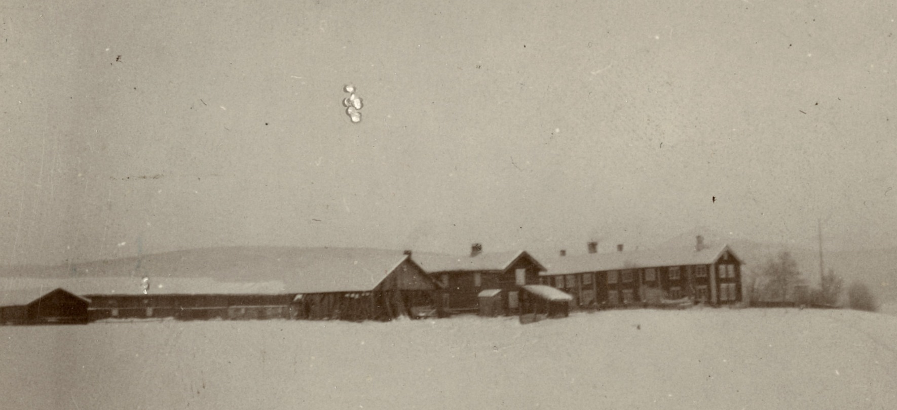 Tynset gamle prestegård, revet 1909